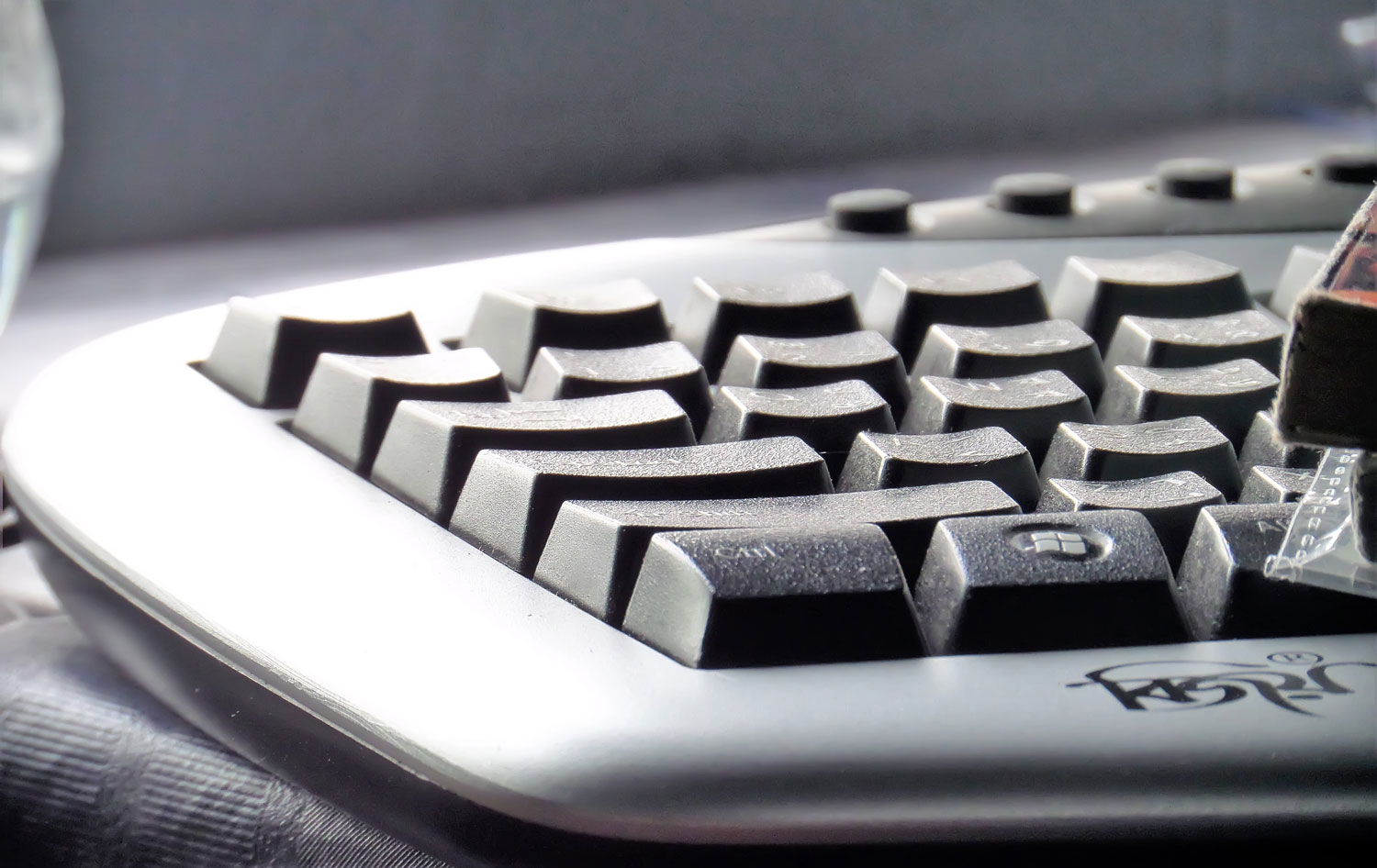 A computer keyboard is a typewriter-style device which uses an arrangement of buttons or keys to act as a mechanical lever or electronic switch.